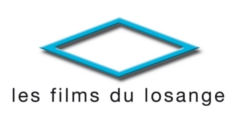 Logo of the company Les Films du Losange